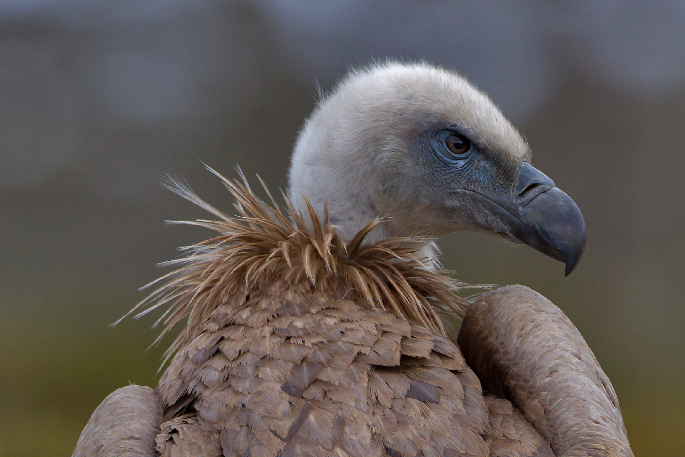 Griffon Vulture Gyps fulvus, a free wild juvenile, taken near La Cañada, Ávila, Spain